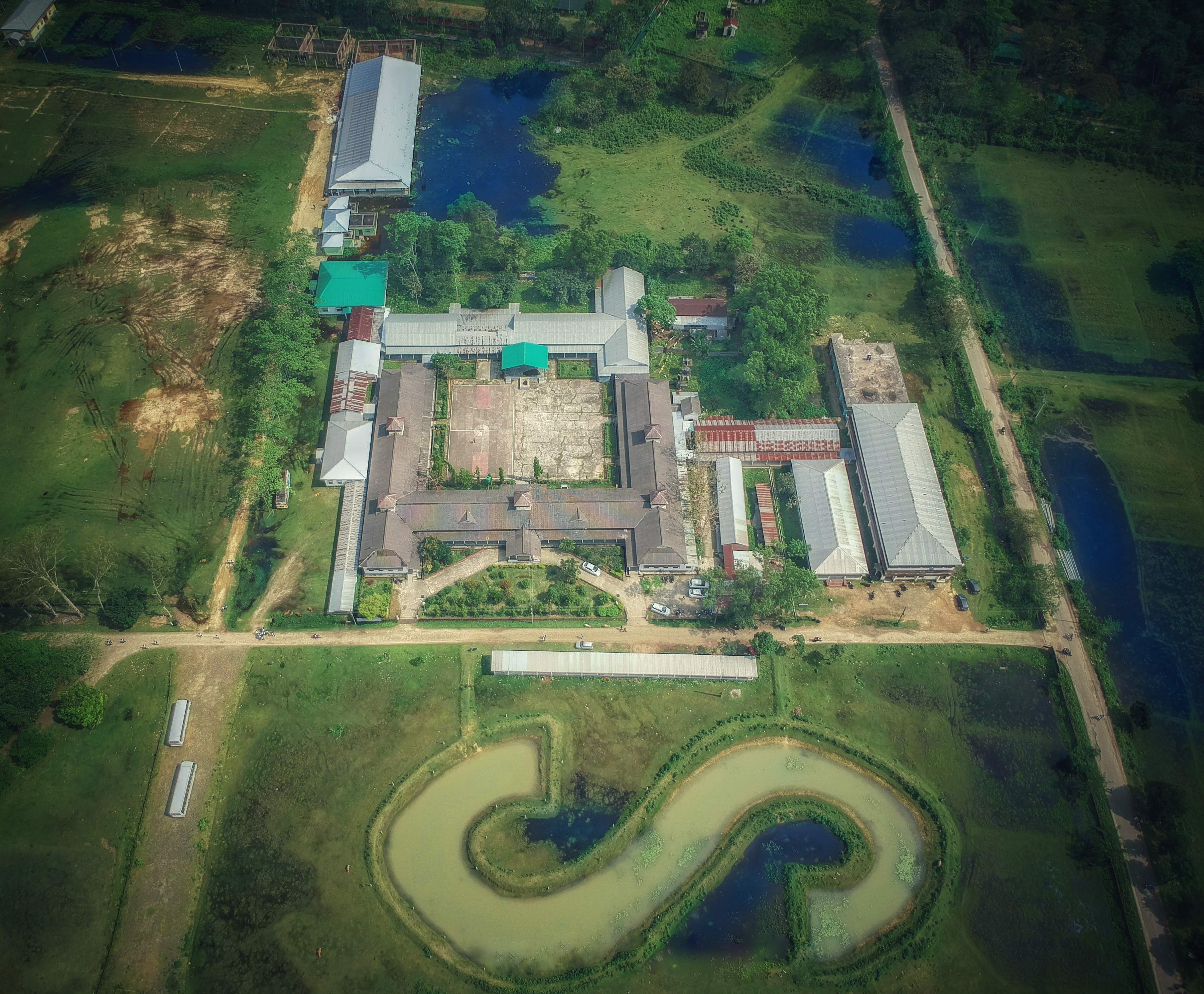 Jist formerly known as science college, photi taken by Exclusivenortheast